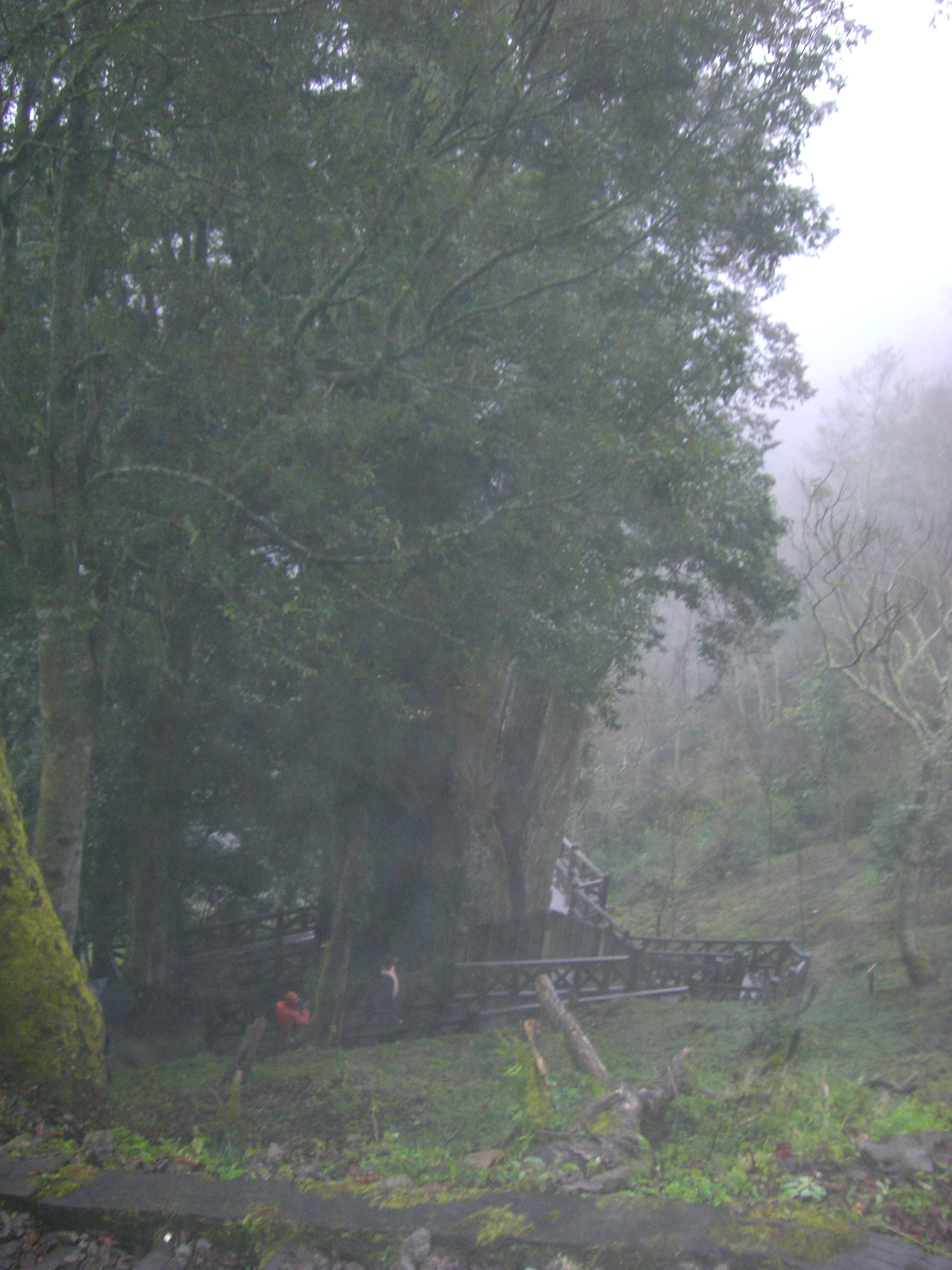 鹿林神木（遠景） Chamaecyparis formosensis